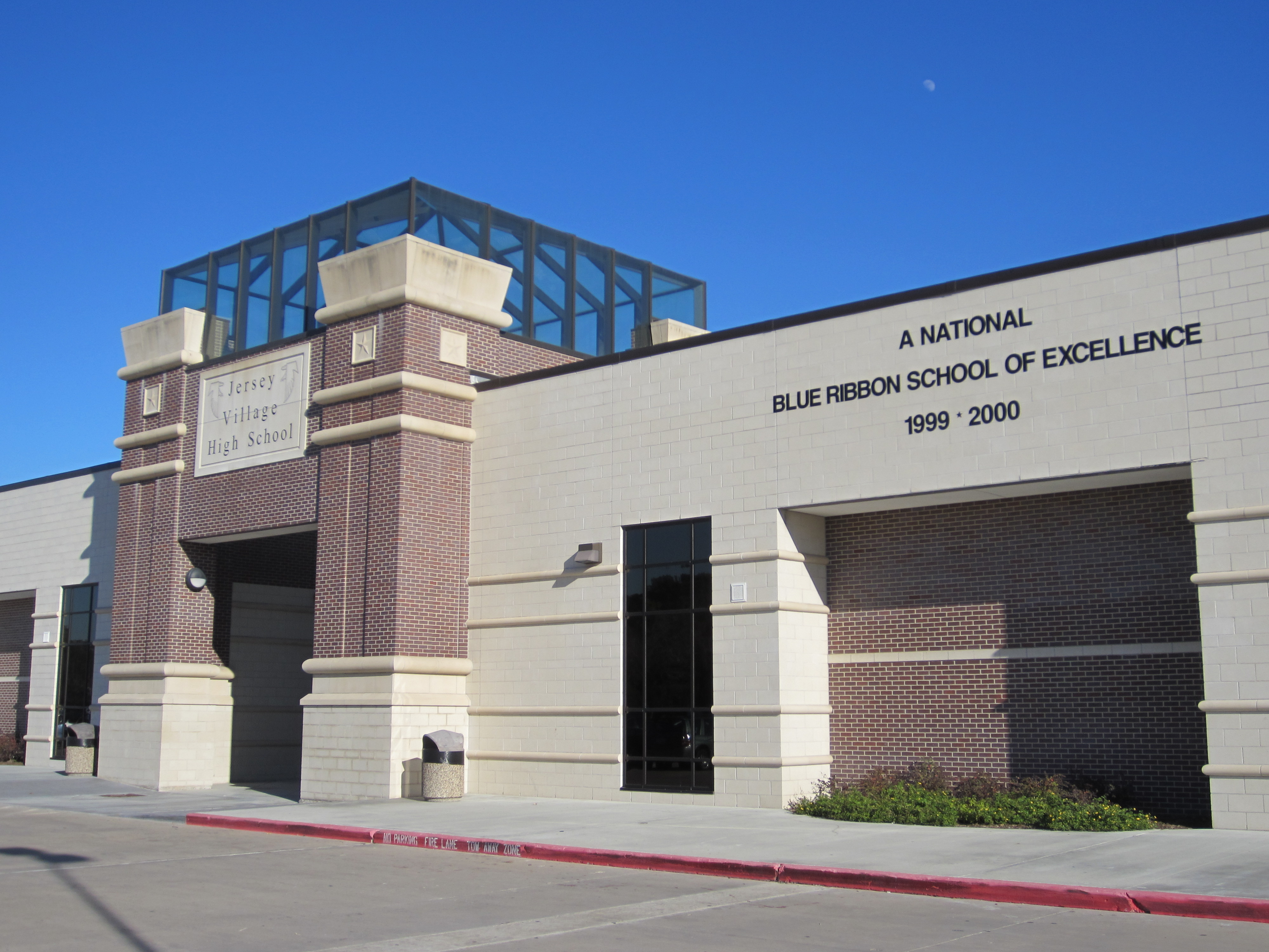 Jersey Village High School in Jersey Village, Texas in January 2012